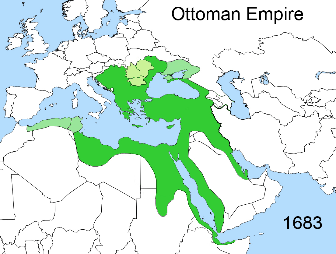 Territorial changes of the Ottoman Empire